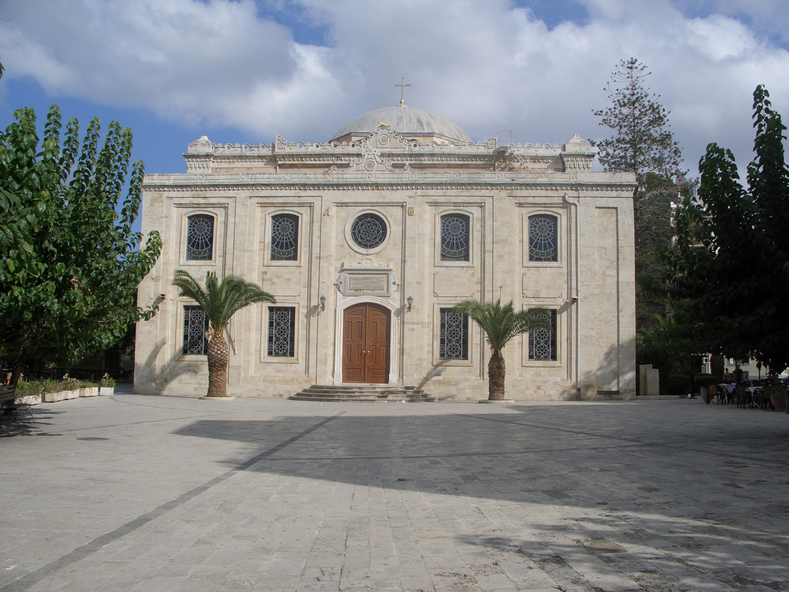 Titus was a companion of Saint Paul, and the first Bishop of Crete